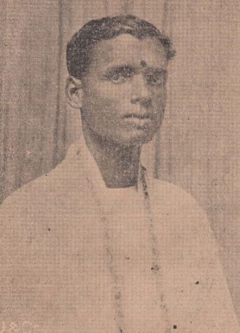 M. Selliah (1906 - 1966), A Sri Lankan Tamil Scholar, poet